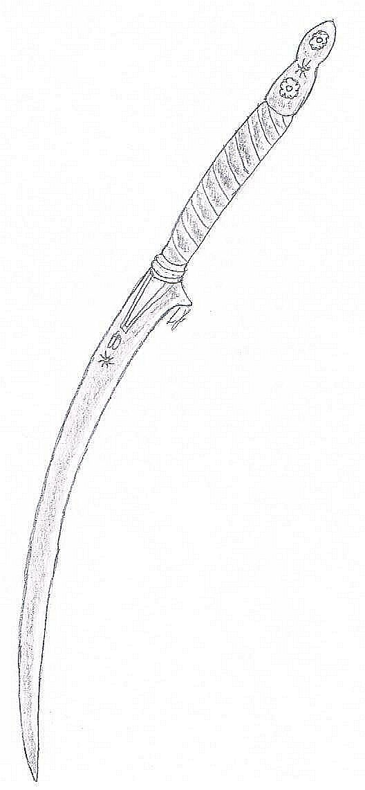 Romphaia